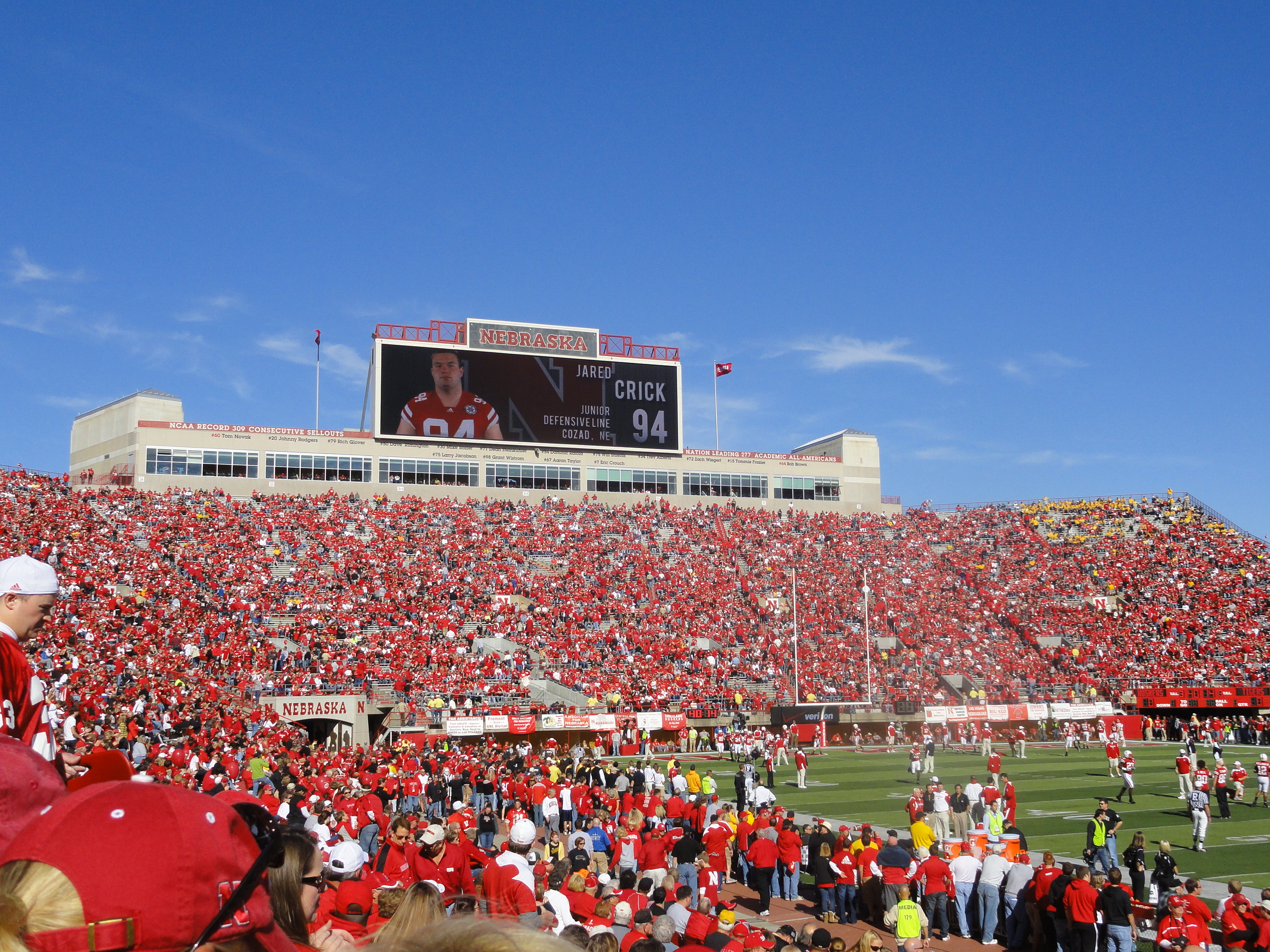 Nebraska's "HuskerVision" jumbo-screen is one of the largest in any college stadium in the country, measuring 118-feet wide by 34-feet high.